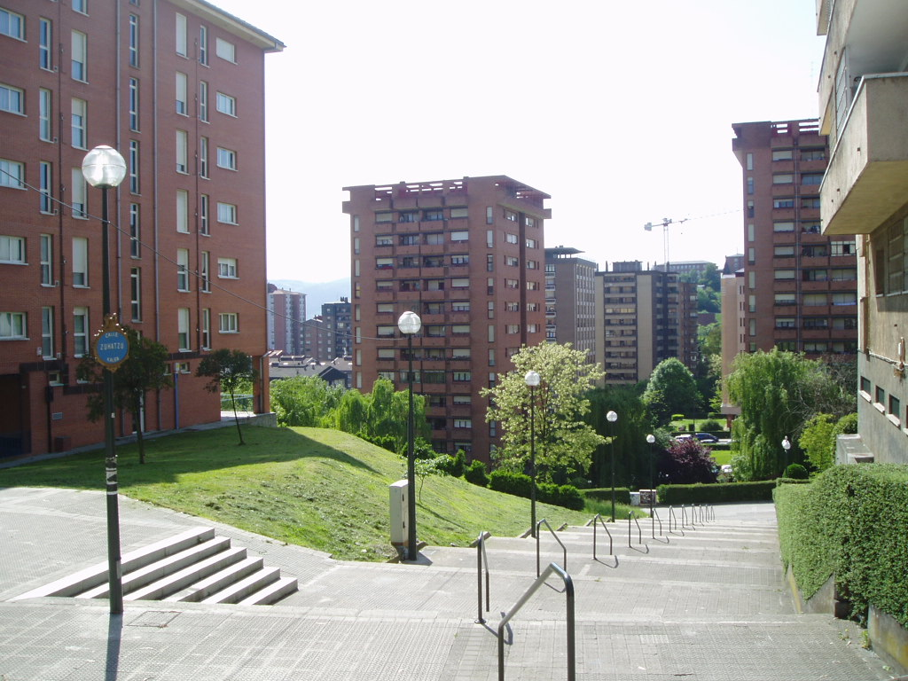 Txurdinaga (Bilbao).